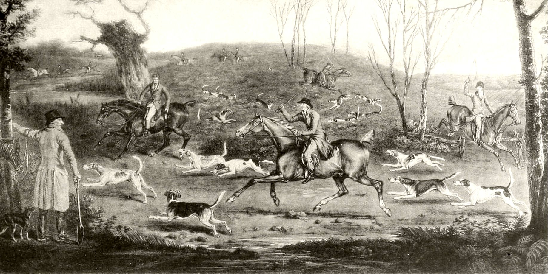 A history of the York and Ainsty hunt / by William Scarth Dixon.